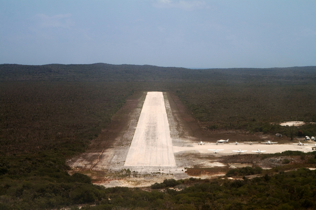 Short final to New Bight International Airport